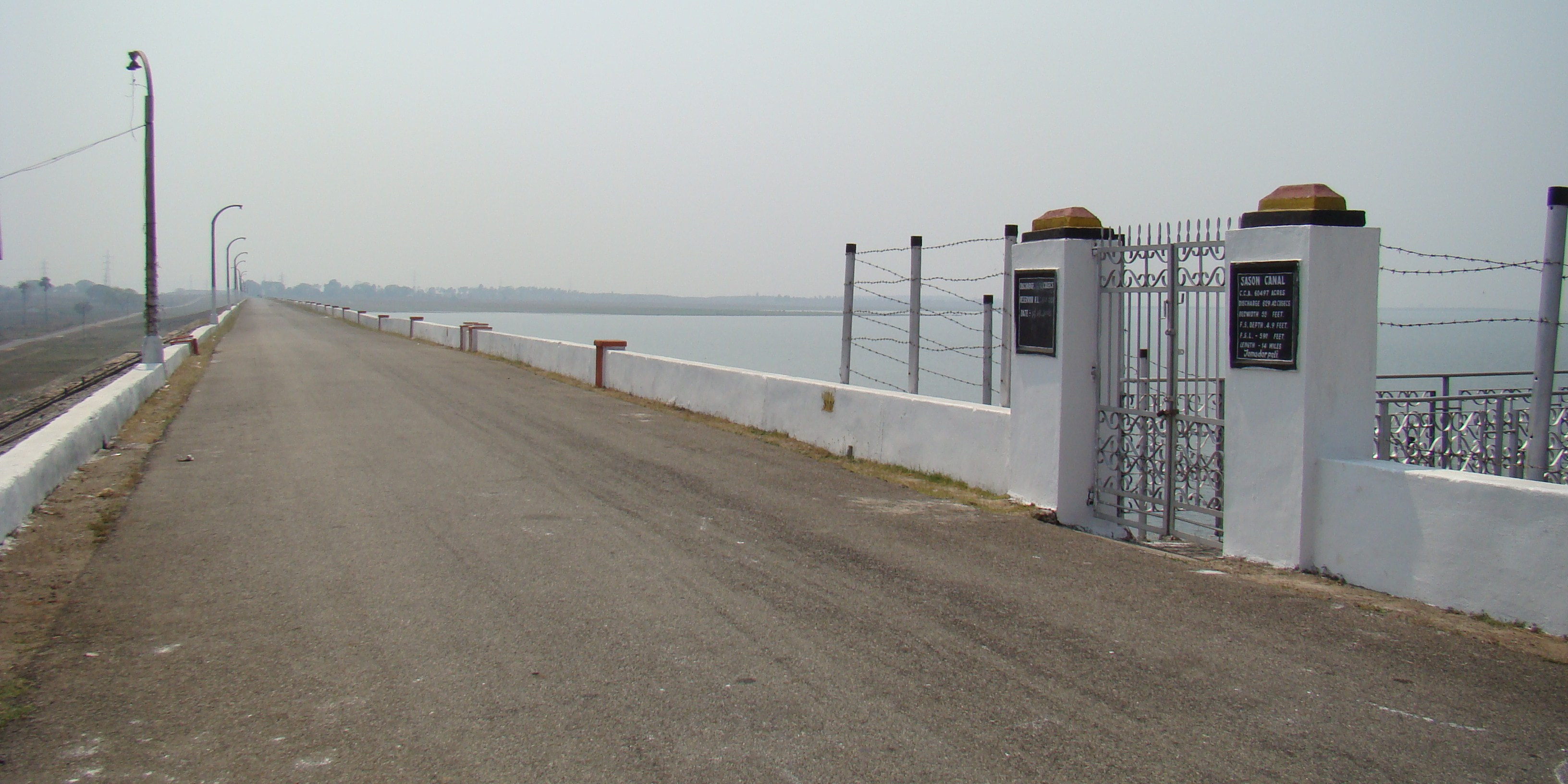 Dyke left at Hirakud Dam